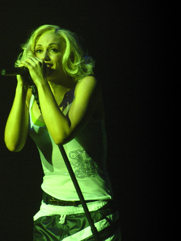 Gwen Stefani performing "Luxurious" in Duluth, Georgia, United Statesthe real thing